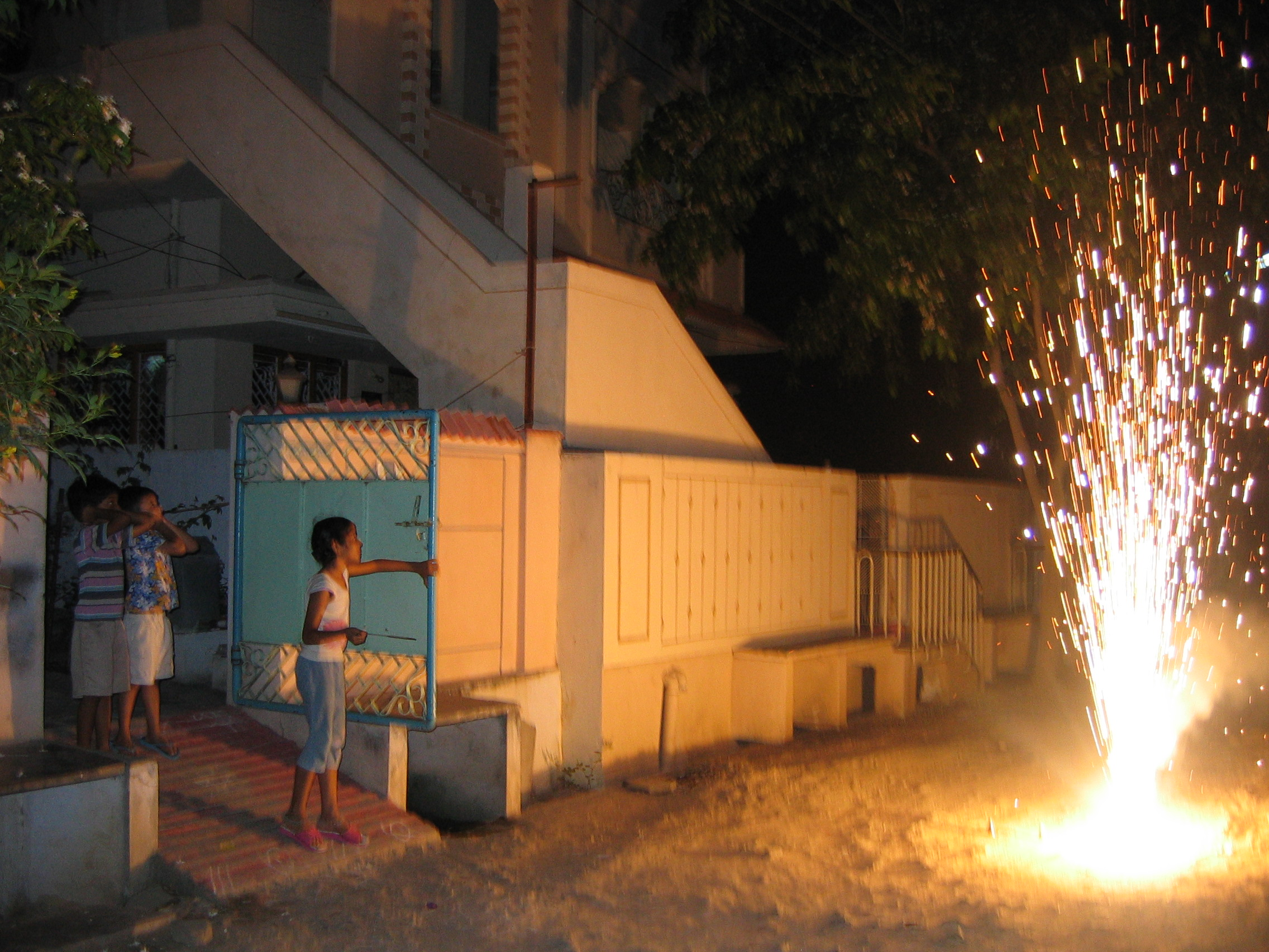 Street fireworks on display by children celebrating Nambur day(birthday of Jonnala Ashok Reddy) at Namburu, India.